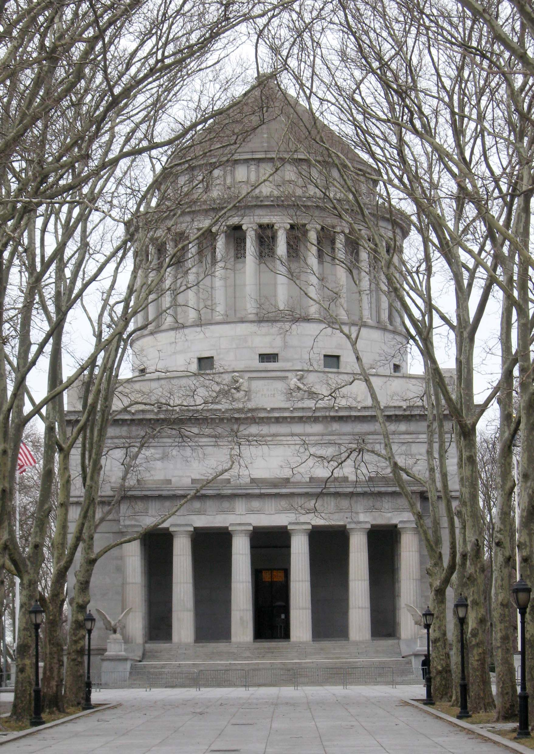 Looking north along the tree lined walk to Grant's Tomb on a cloudy midday